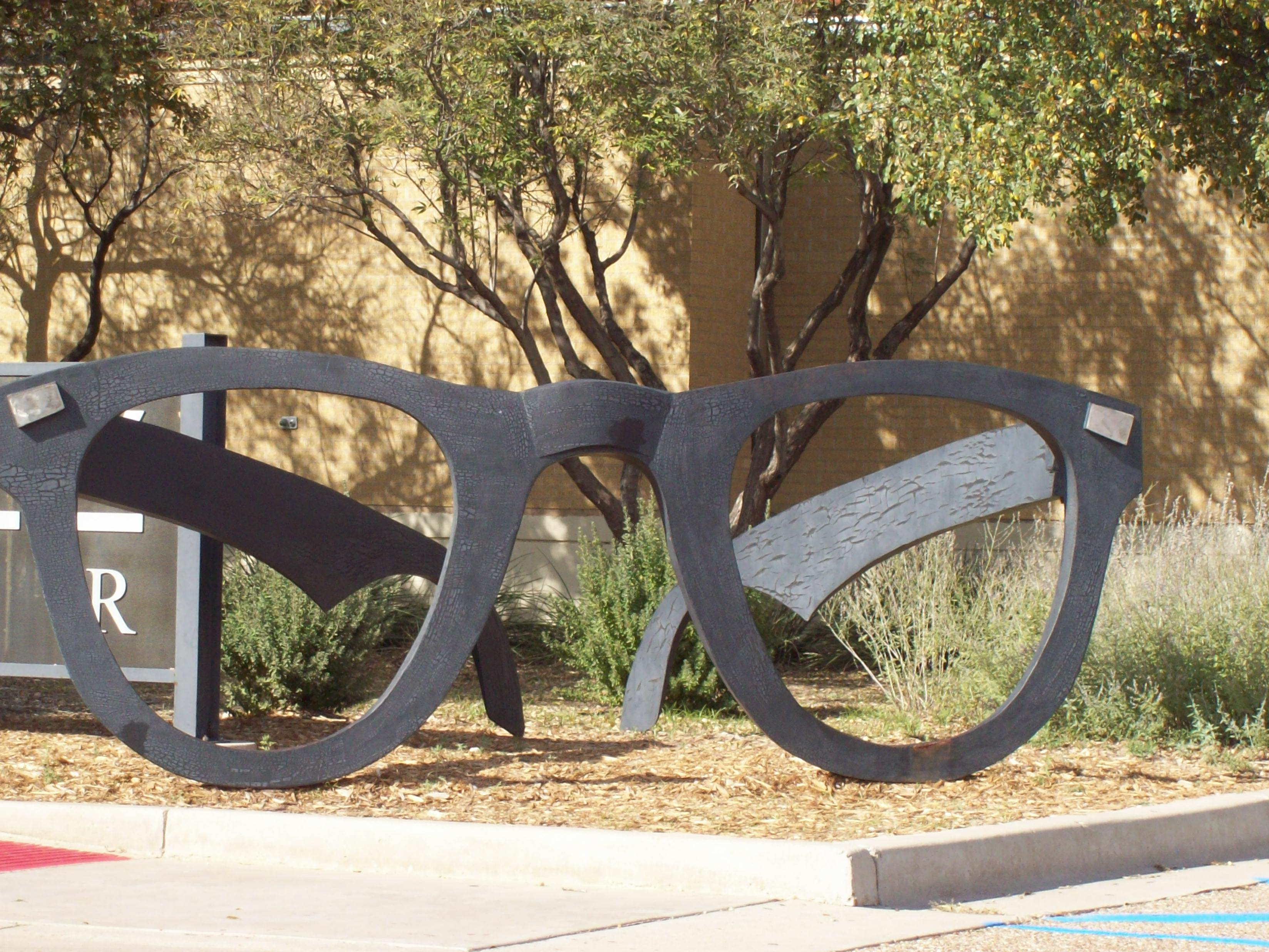 The large Buddy Holly glasses in front of the Buddy Holly Center in Lubbock, Texas